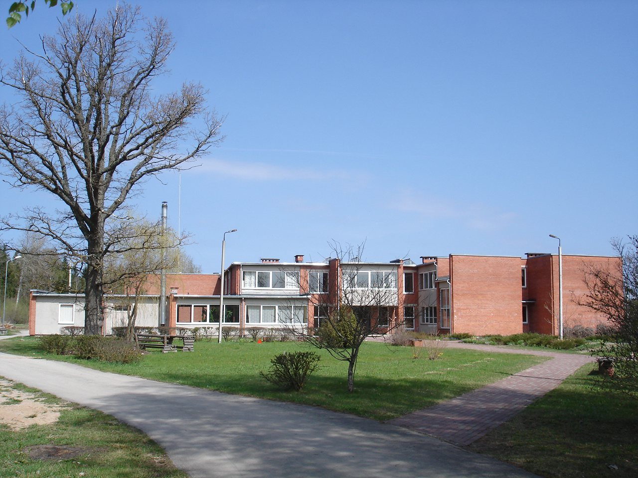 school